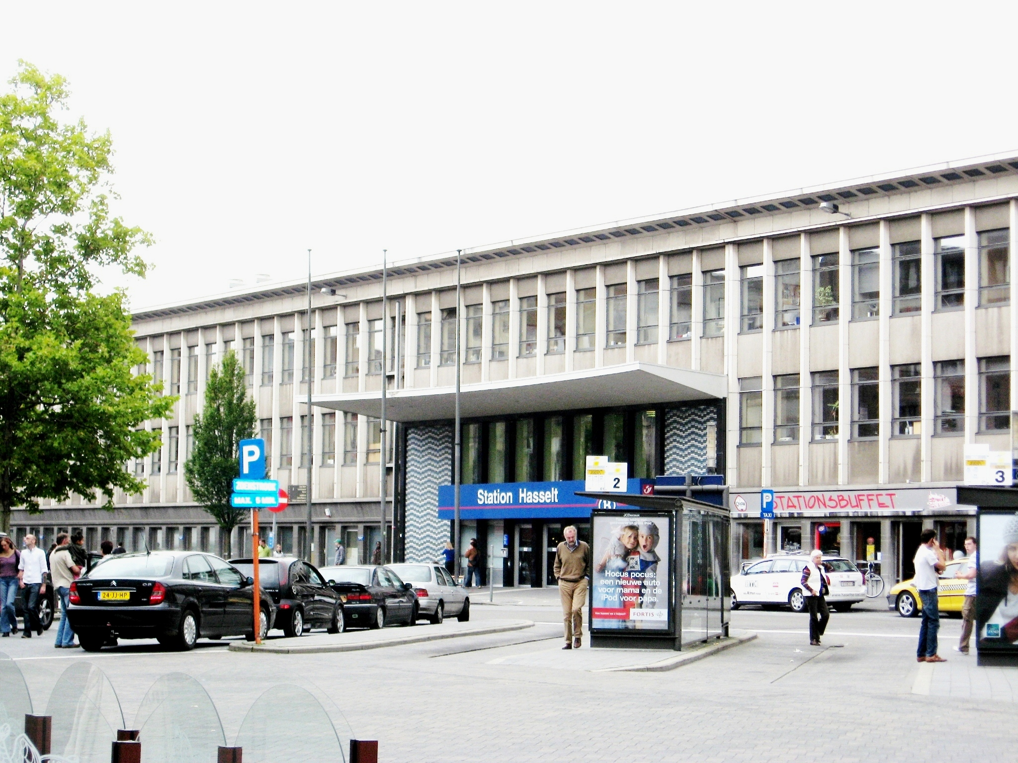 Train station of Hasselt, Limburg, Belgium